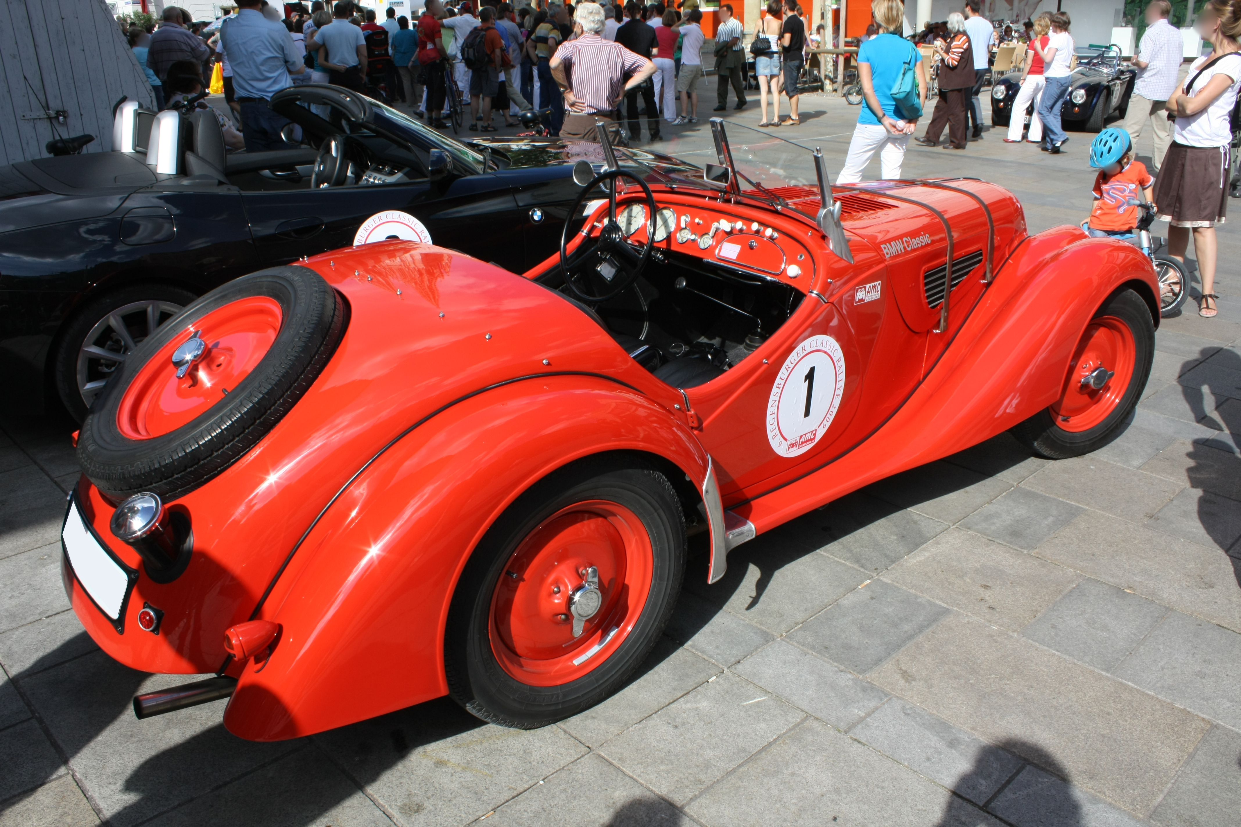 BMW 328